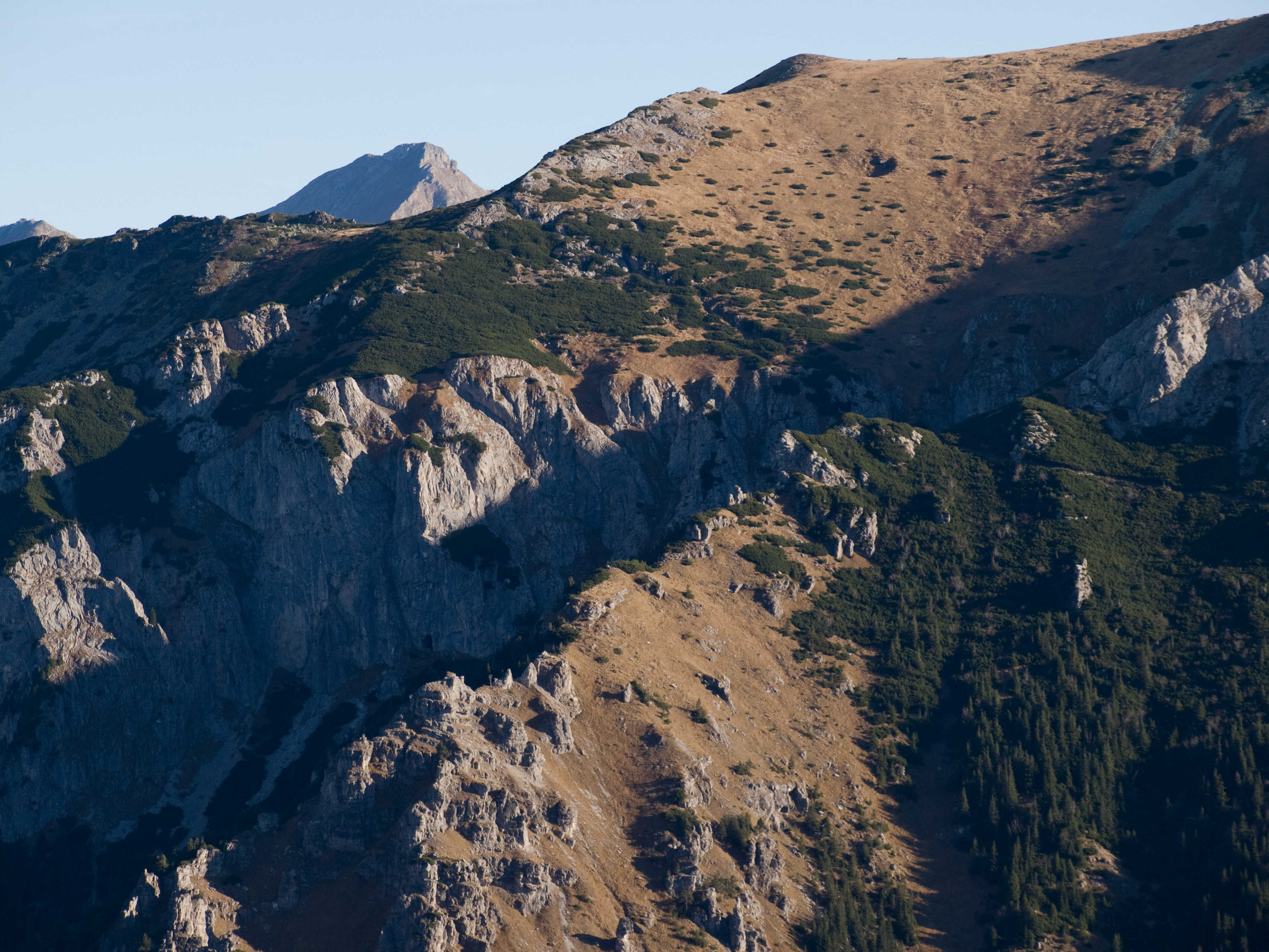 Horvátov vrch, in the background Havran